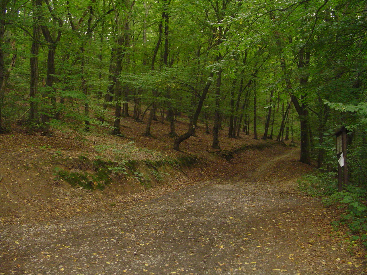 Chuchle Forest, Prague 5